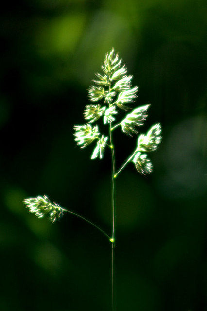 Cocksfoot (Dactylis glomerata), Baltasound A rough grass that is common and widespread throughout Britain.